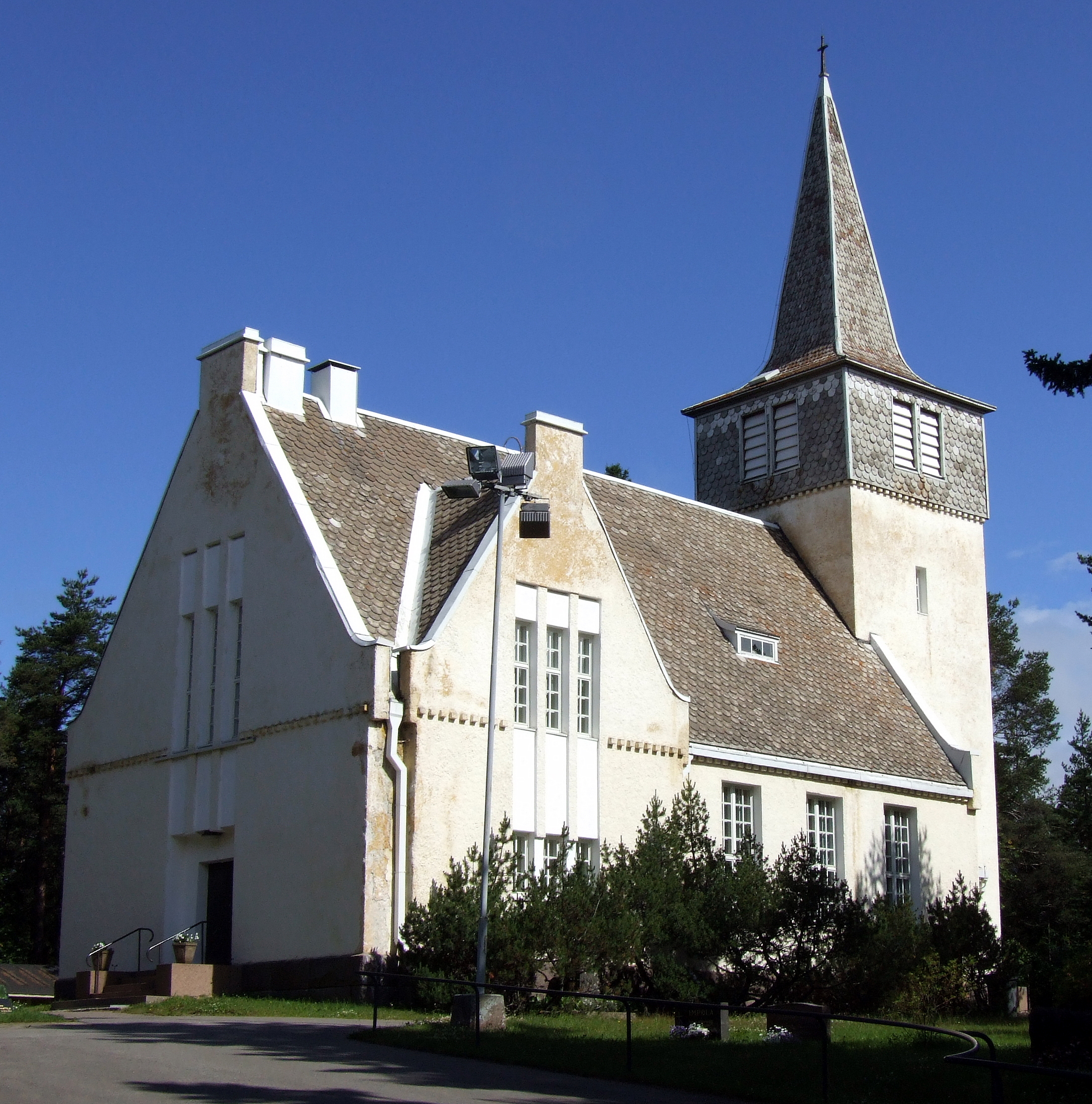 The church of Pattijoki in Raahe, Finland. The church was designed by architect Josef Stenbäck and completed in 1912.